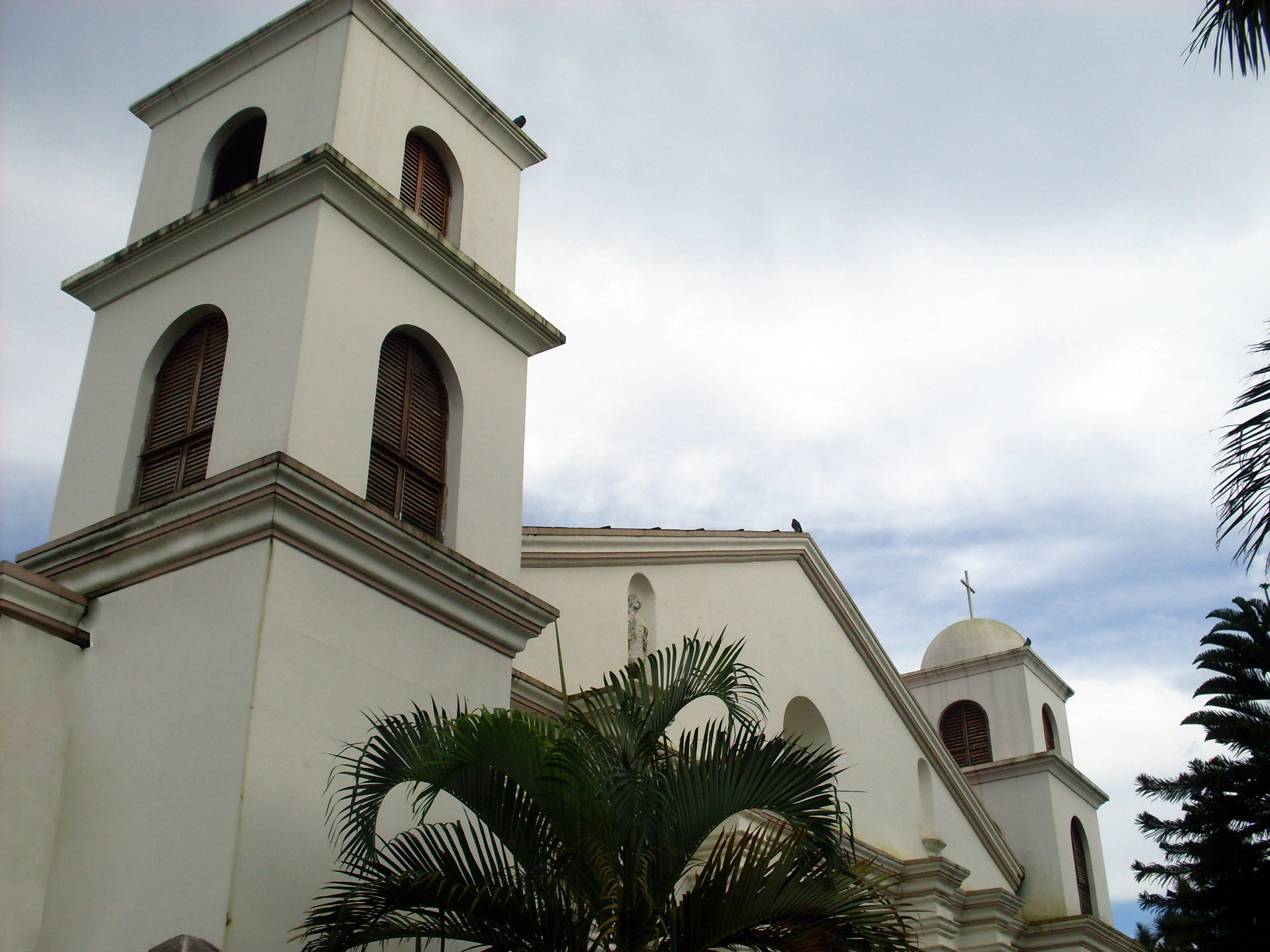 Iglesia de la parroquia San Juan Bautista en Nahuizalco, El Salvador.